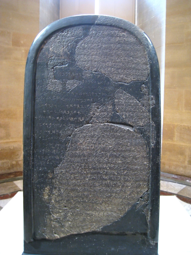 Mesha Stele: stele of Mesha, king of Moab, recording his victories against the Kingdom of Israel. Basalt, ca. 800 BCE. From Dhiban, now in Jordan.